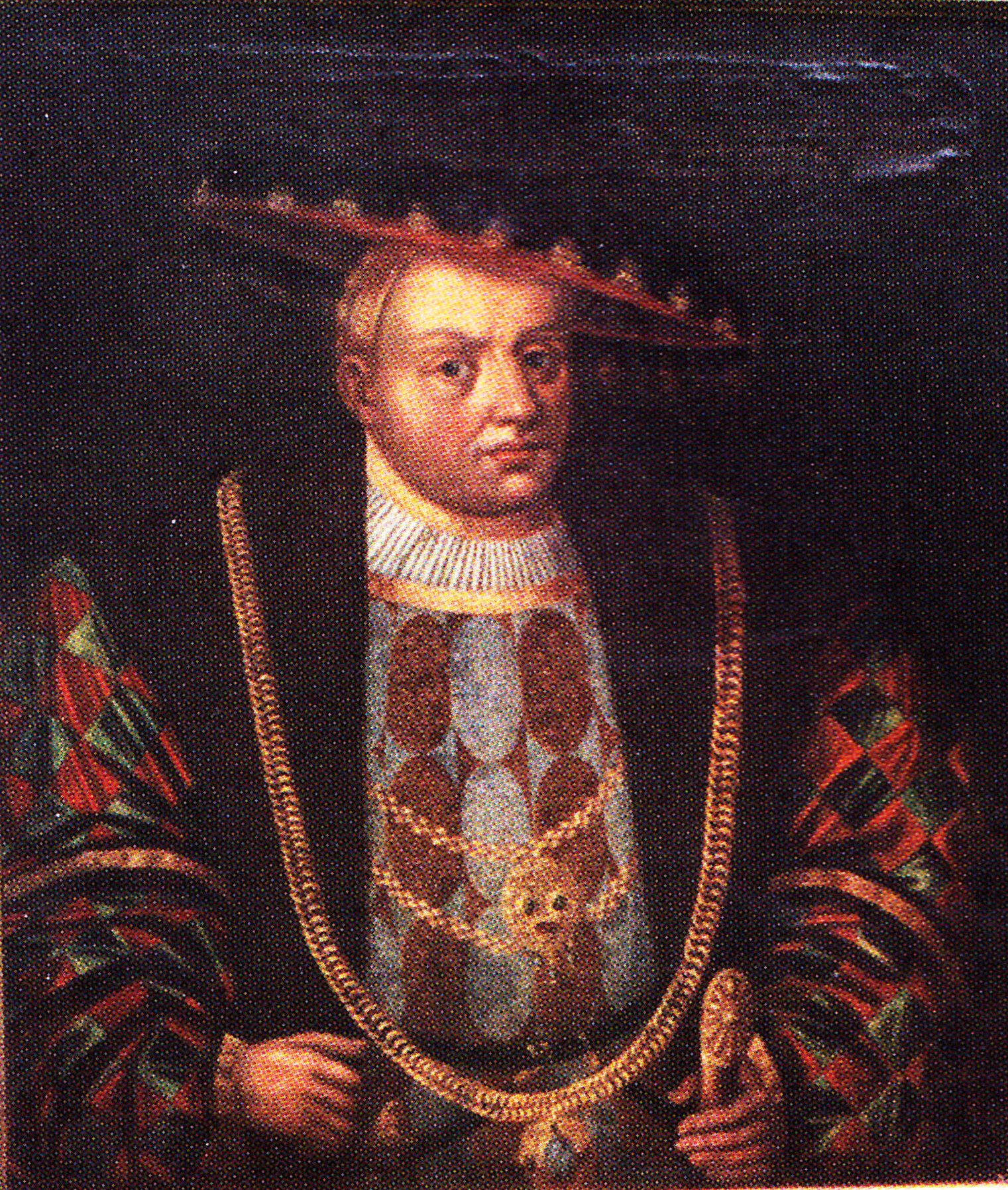 Bogislaw X. of Pomerania, also Bogislaw the Great; Caption: BOGISLAVS, ERICI 2 FILIUS, DUX/STETINII, POMERANIAE, OC. NASClTUR/Ao: 1454, MORlTUR Ao: 1523